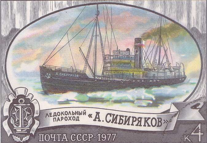 Soviet postage stamp of 4 kopecks from 1977. Ice-breaker steamship "Aleksandr Sibiriakov".